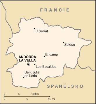 map of Andorra with Czech description